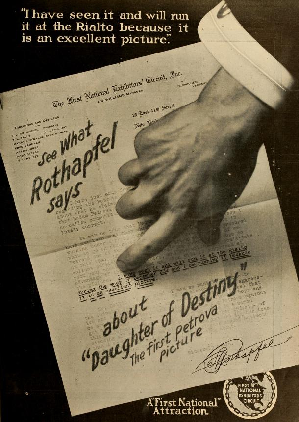 Advertisement in The Moving Picture World for the American film Daughter of Destiny (1917).